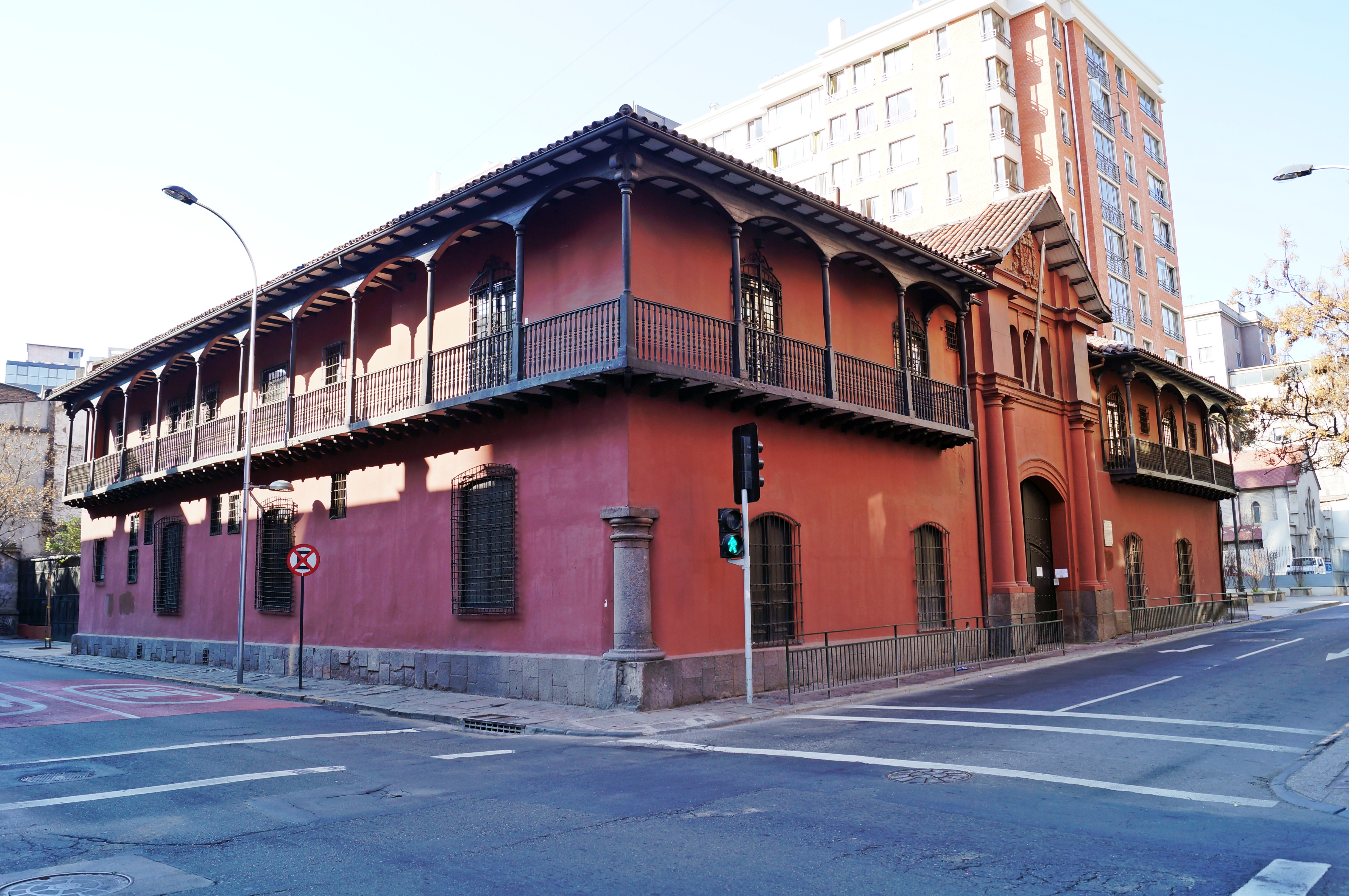 This is a photo of a national monument in Chile: 844